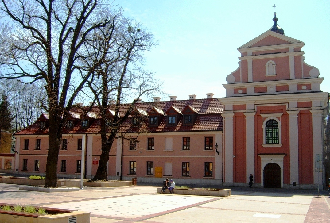 Former church and monastery of Poor Clare Sisters in the Old Town in Zamość (nowadays musician school).